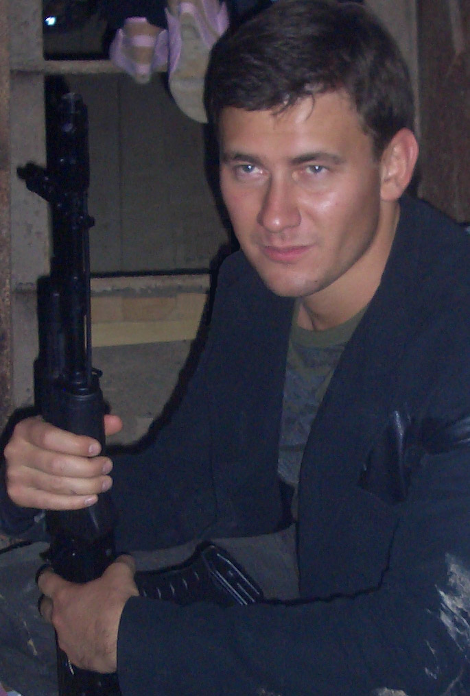 Dmitry Glukhovsky at presentation of «Metro 2033»